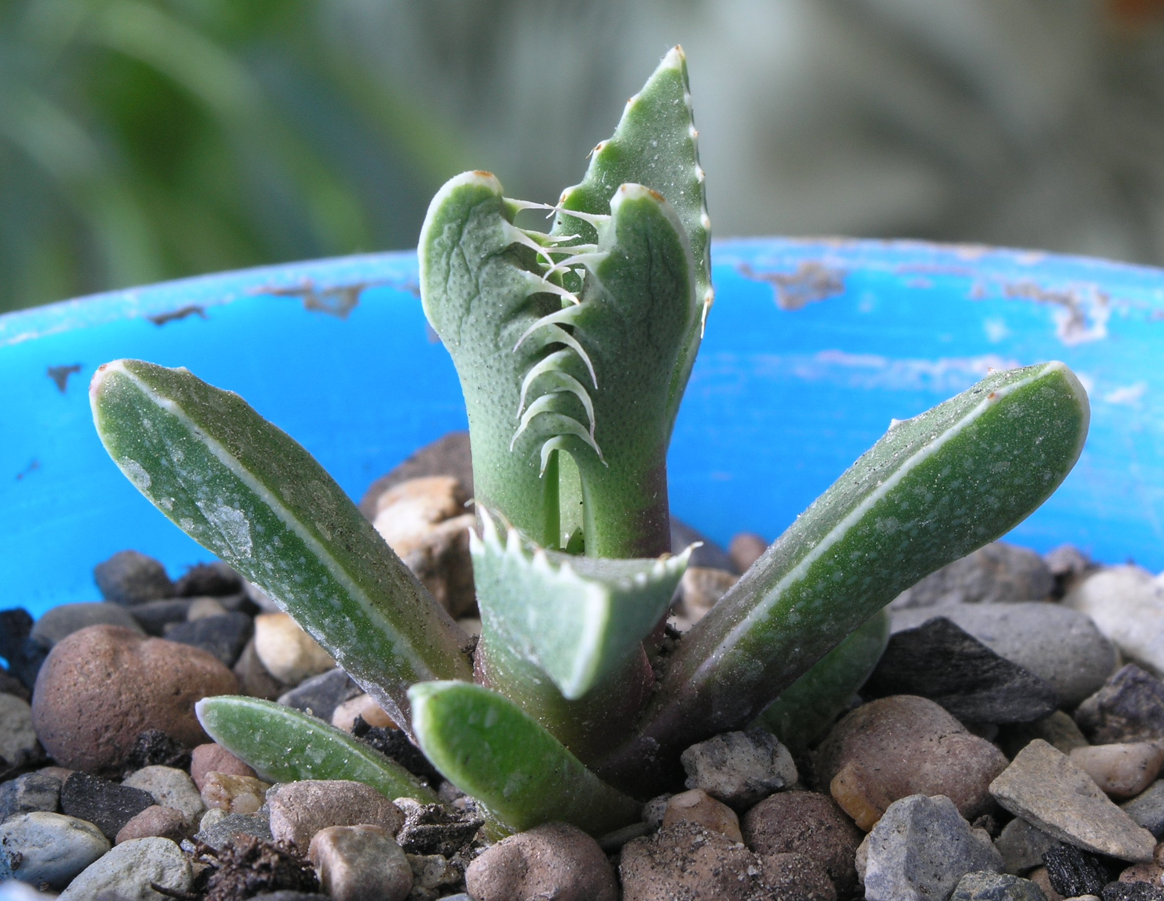 Faucaria tigrina, young plant (plant collection of Ivan I. Boldyrev, Berdsk, Russia)